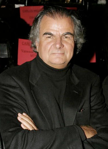 Fashion Week in New York